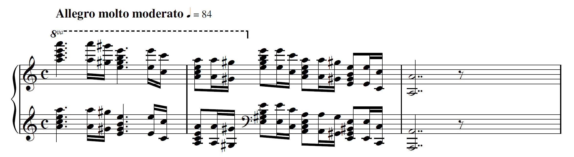 The famous flourishing piano introduction to Grieg's Piano Concerto in A minor, Op. 16.